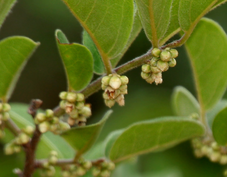 Diospyros chloroxylon in Hyderabad, India.